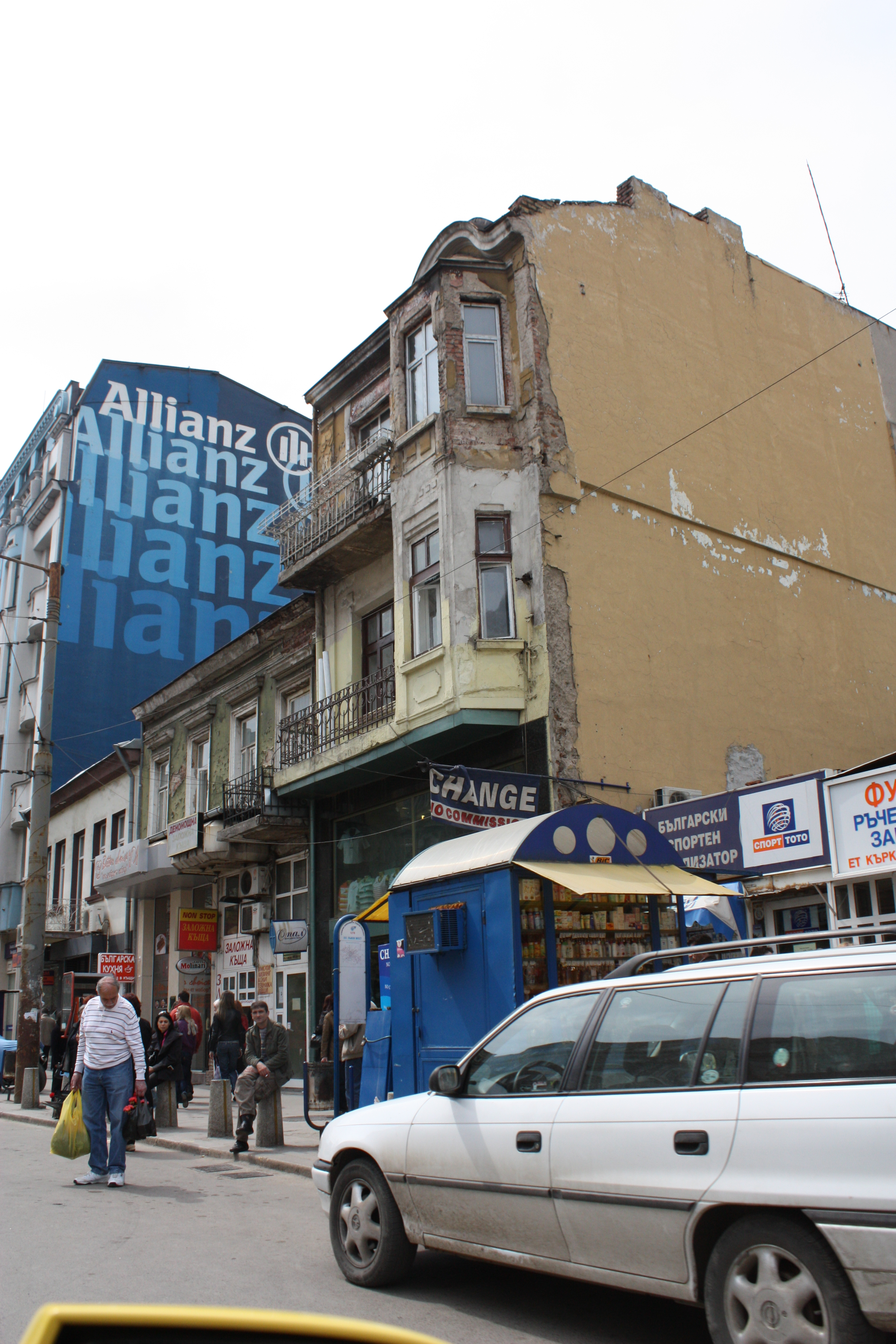 Streets in Sofia, Bulgaria, Straßen in Sofia, 2009